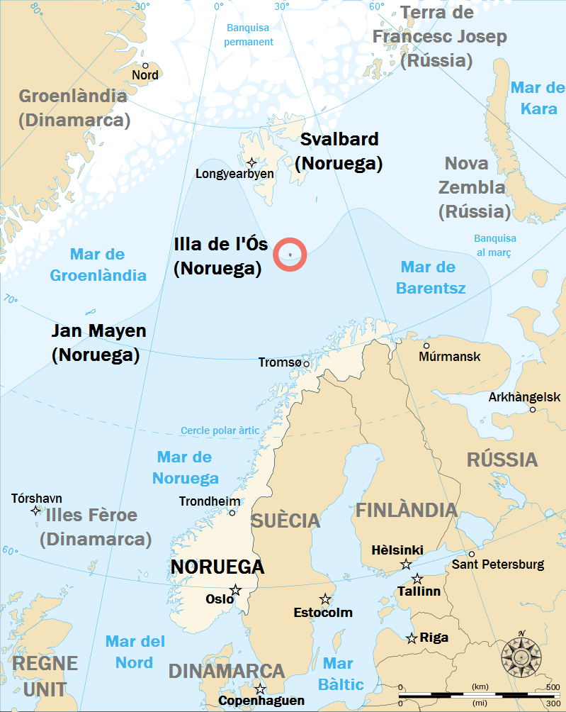 Catalan map showing the location of Bjørnøya, a Norwegian Island between Norway and Svalbard.